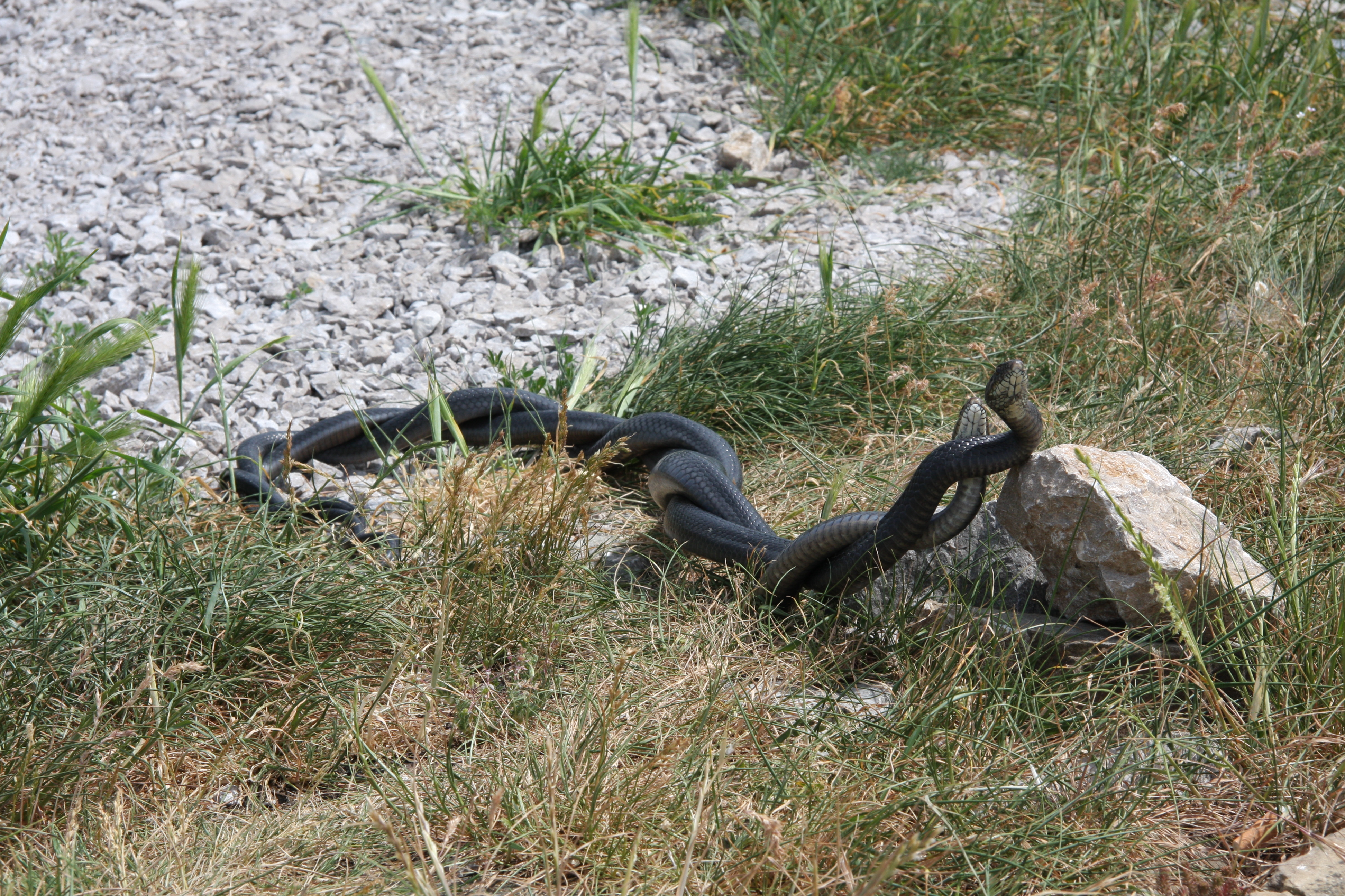 A pair of melanistic Green Whip Snakes copulating (or possibly two males fighting); taken next to Socerb Castle in Slovenian littoral.